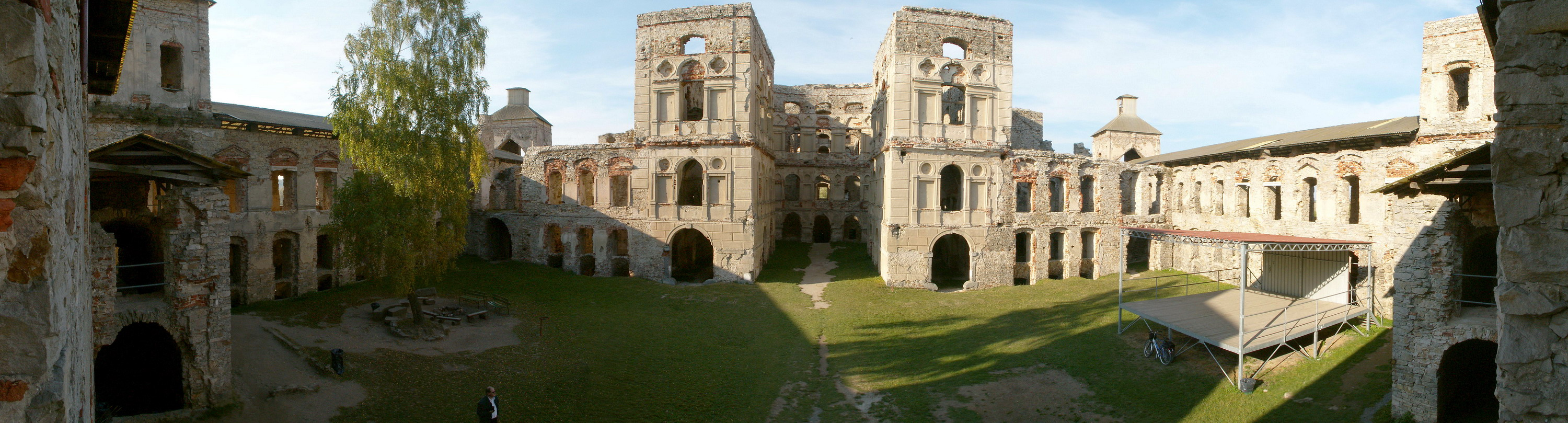 Panorama of inner square of Krzyżtopór Castle in Ujazd (Poland)